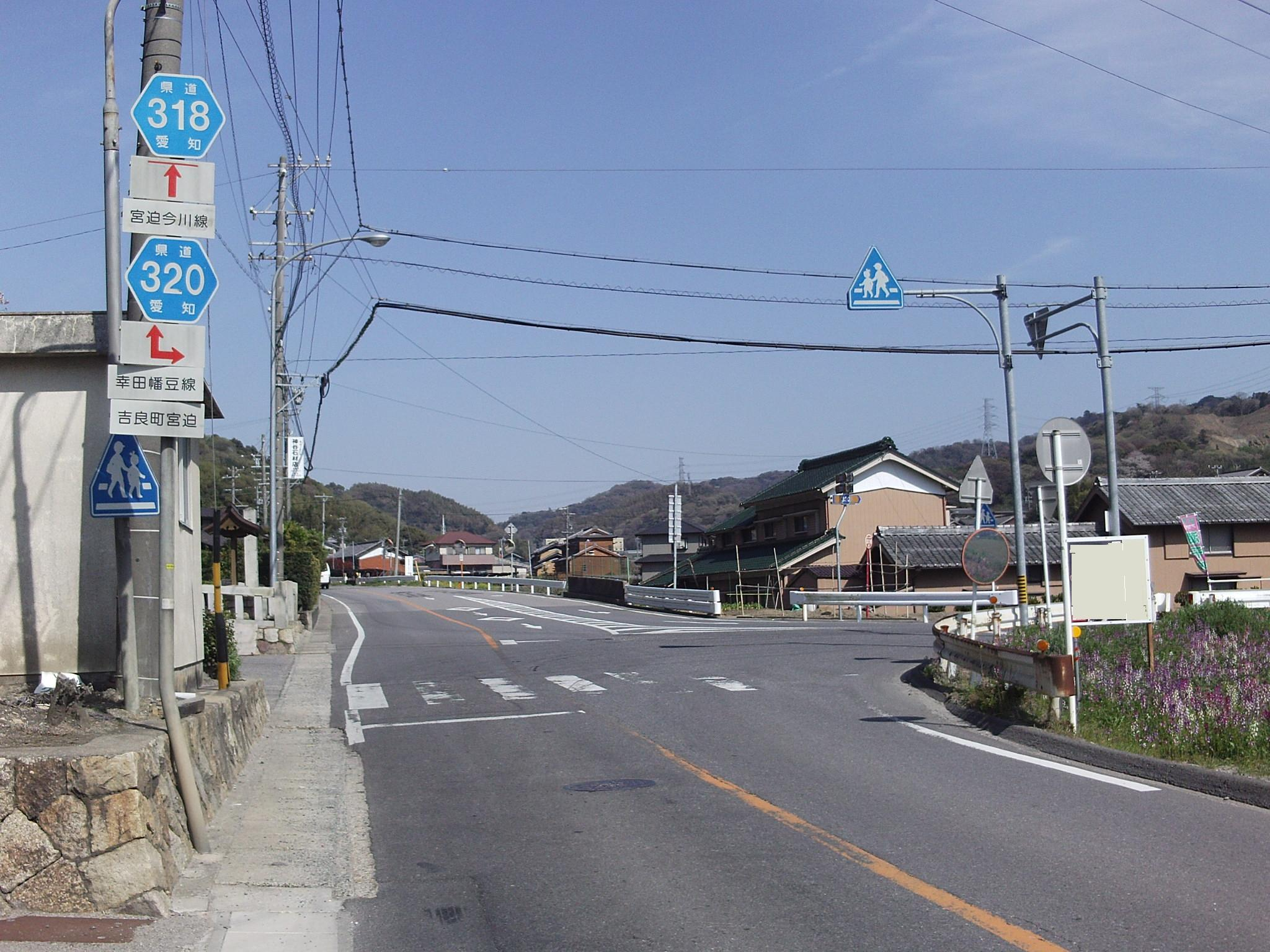 Aichi prefectural road No.318 in Kiracho Miyaba, Nishio, Aichi.